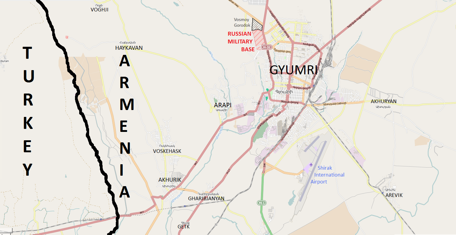 The city of Gyumri and important military and civil structures in its vicinity (e.g. the Russian base) and the Turkish-Armenian border. This map may be incomplete, and may contain errors. Don't rely solely on it for navigation.